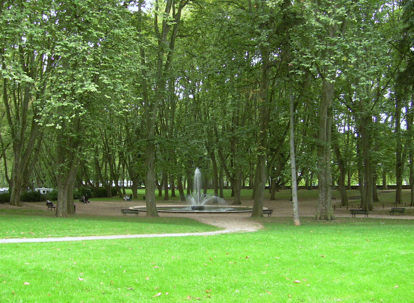 The garden of the area of Chamars, in Besançon (Doubs, France)